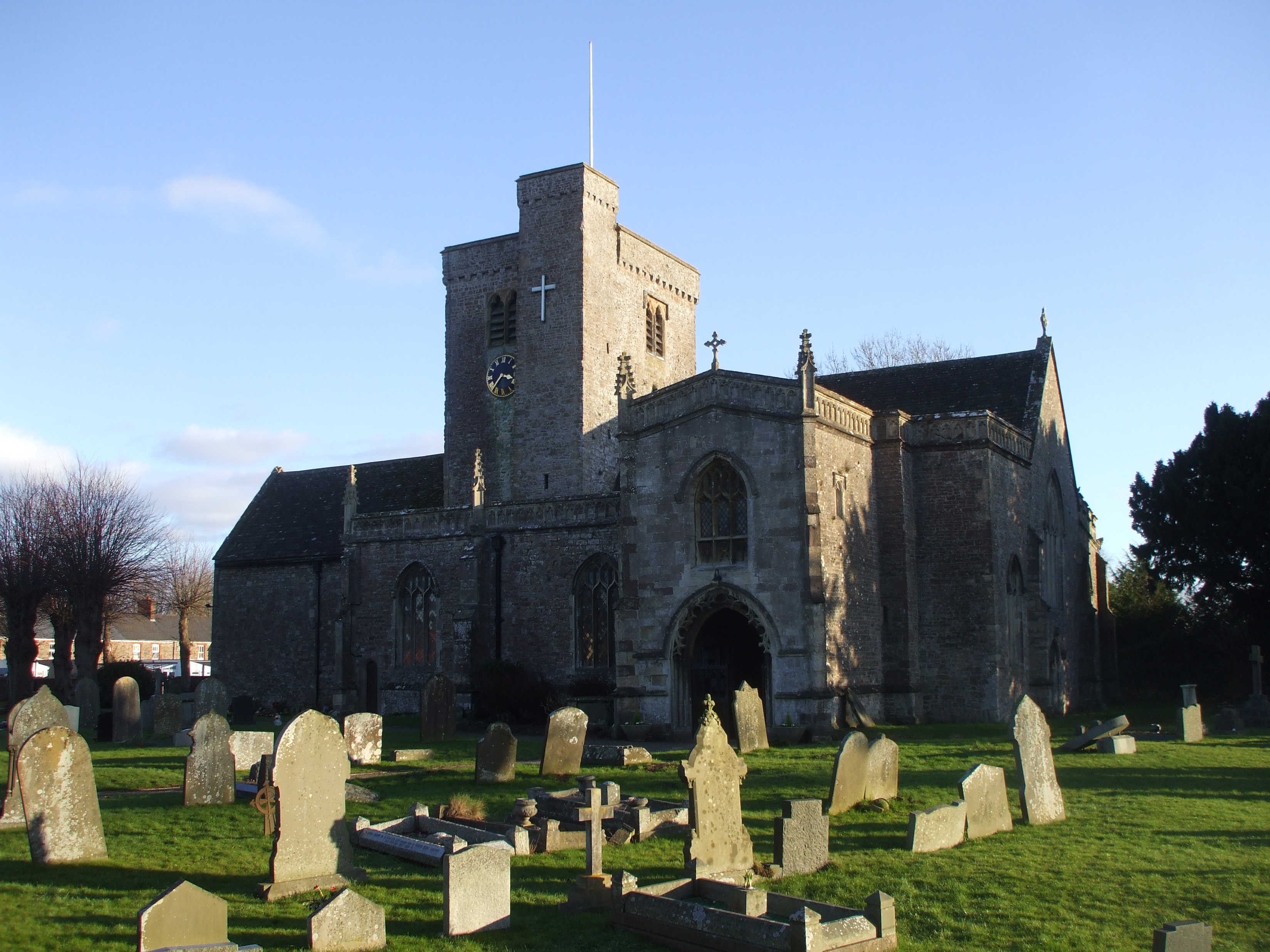 St Marys' Church, Magor